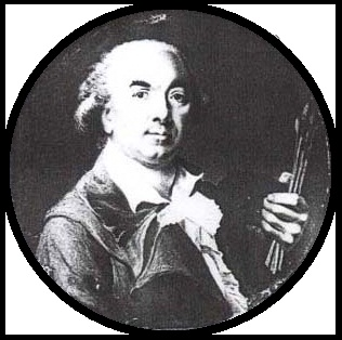 Jean-Baptiste Duvernoy (ca. 1802-ca. 1880), French composer